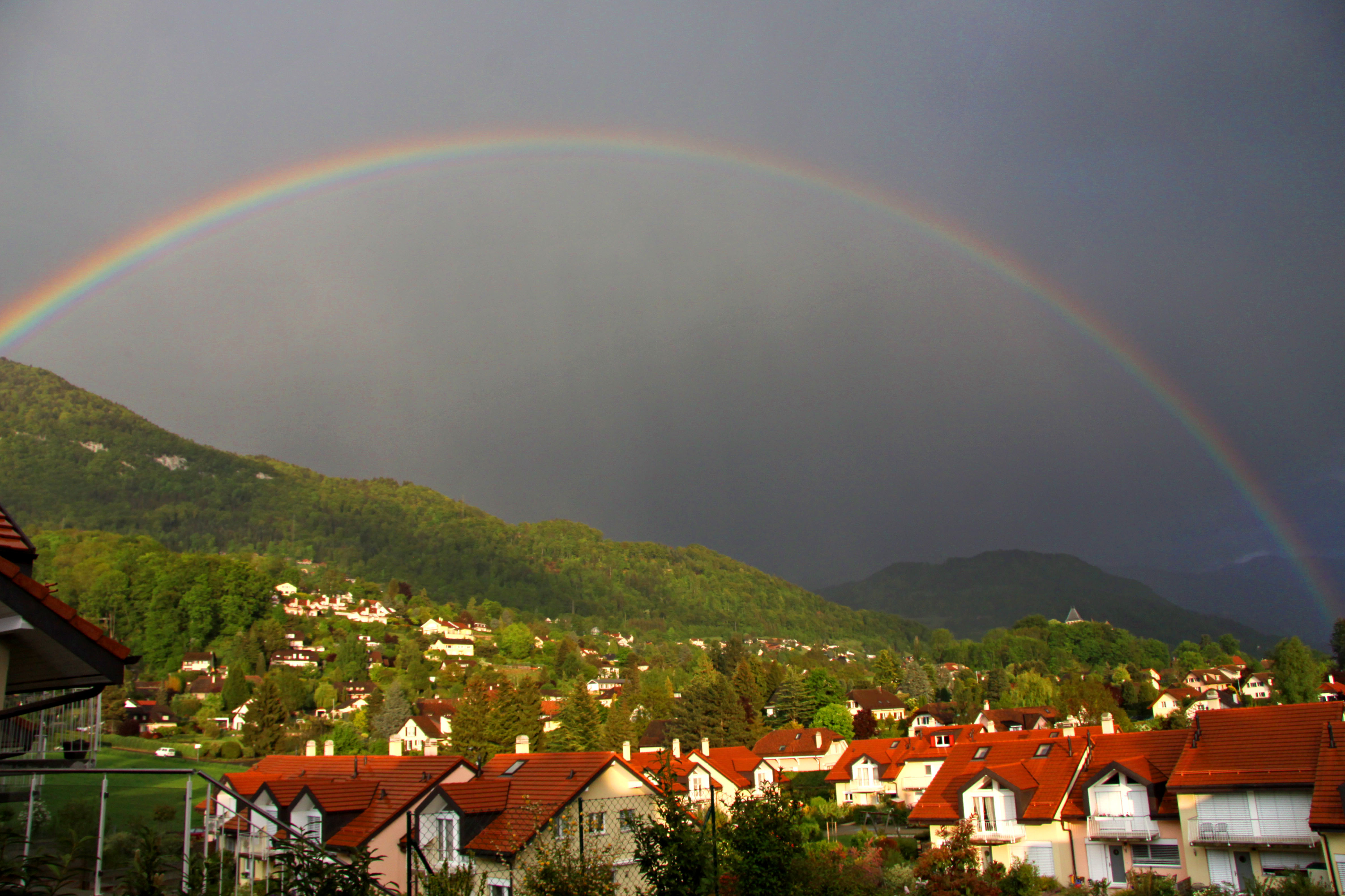 Saint-Légier village in Saint-Légier-La Chiésaz, Vaud, Switzerland